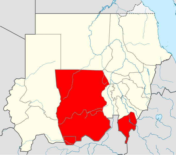 Depicts the area of the conflict between the government of Sudan and rebel groups under the umbrella of the Sudan Revolutionary Front currently fighting to overthrow it, as of Christmas Day 2011.